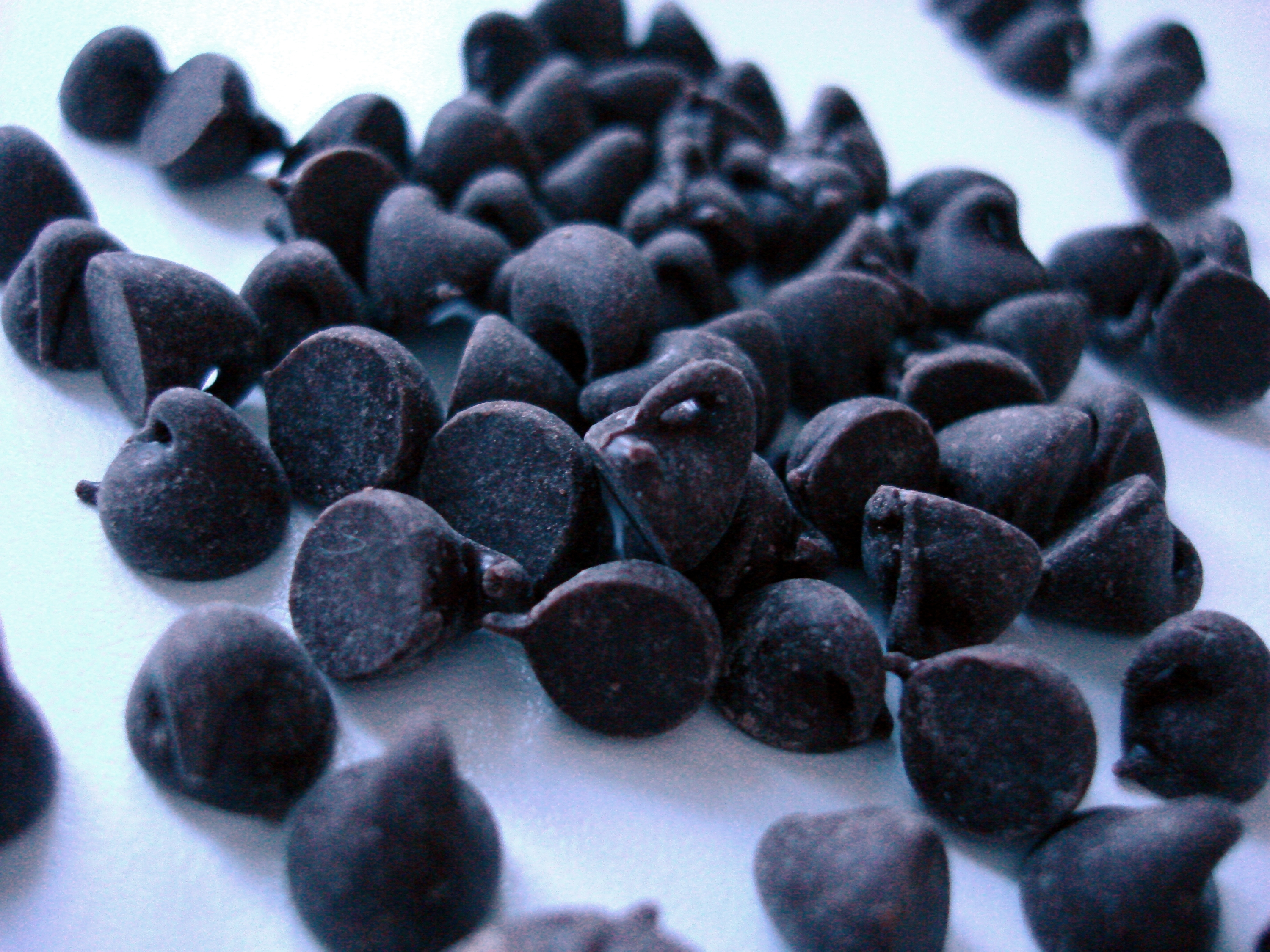 Semi-sweet chocolate chips on a table